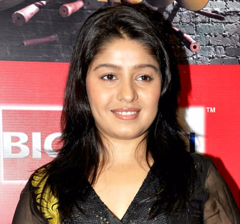 Sunidhi Chauhan at Audio release of 'Bumboo'